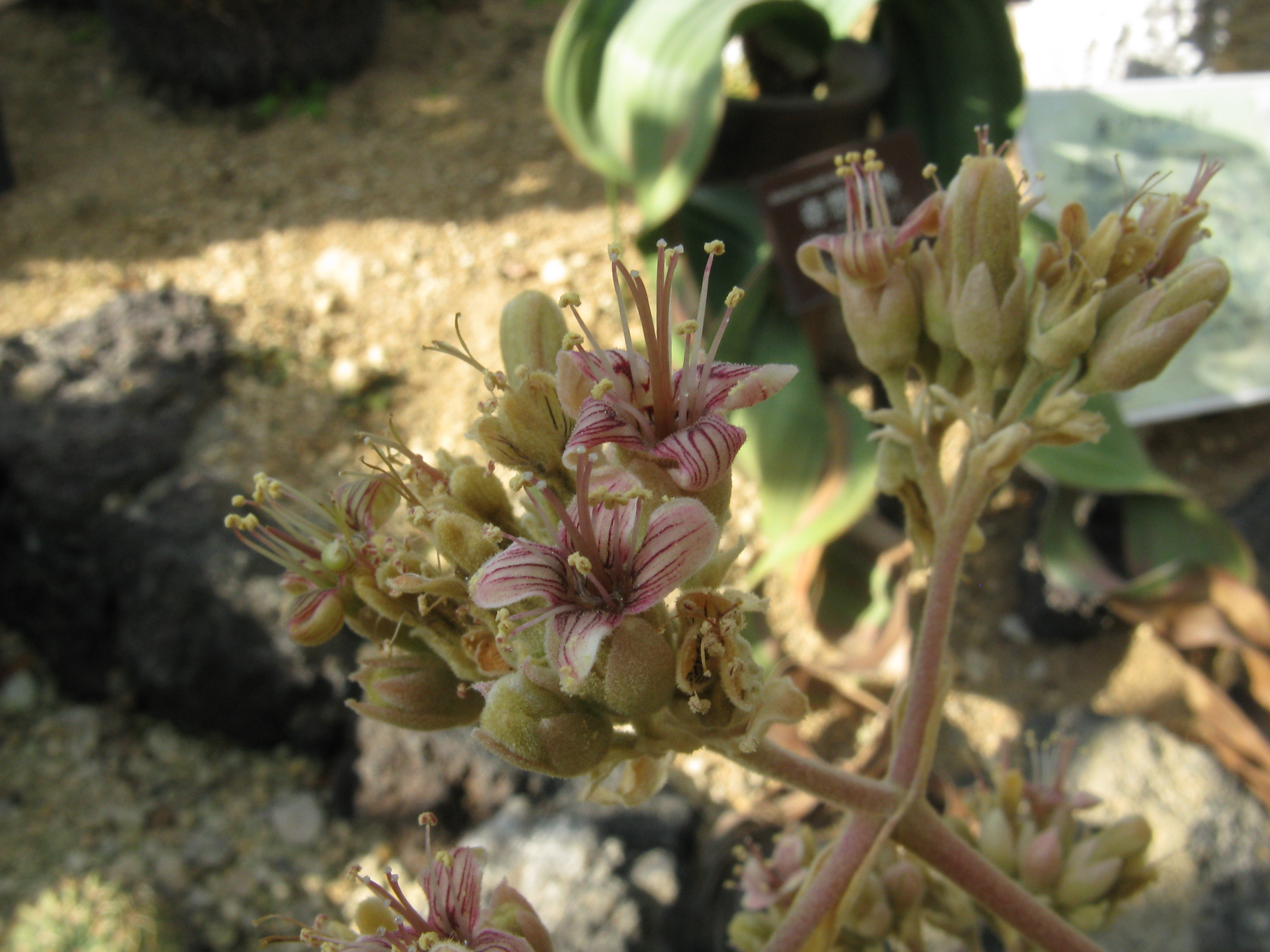 Scientific name Kalanchoe beharensis Place:Osaka Prefectural Flower Garden,Osaka,Japan